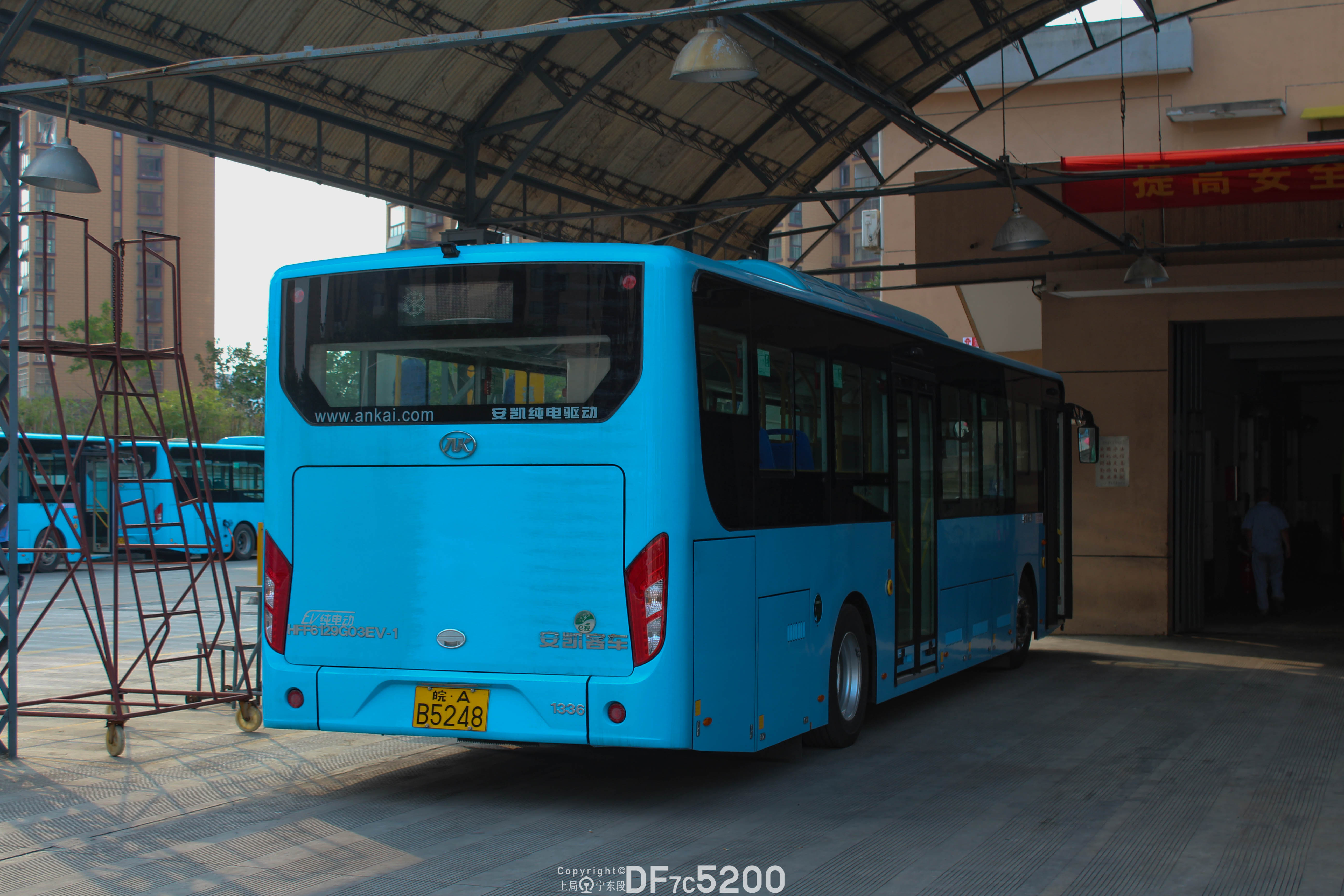 中文（中国大陆）: Bengbu Bus No,101 out of the shed at Zhanggonghu Sta.